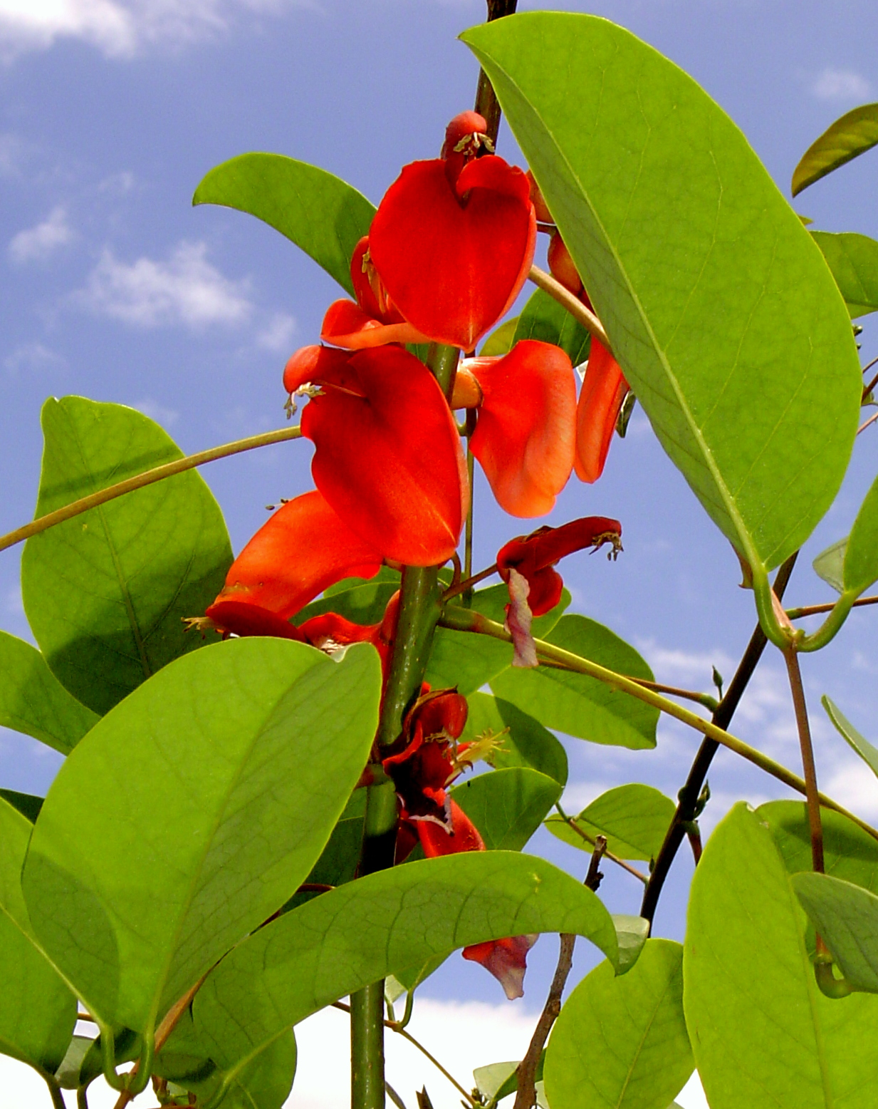 Biology,plants.Tree of Erythrina crista-galli (corallodendron crista-gali).Place: Florianópolis,S.C.,Brasil